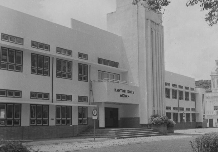 The town office (Kantor Kota Medan) beside the town hall (Balai Kota)